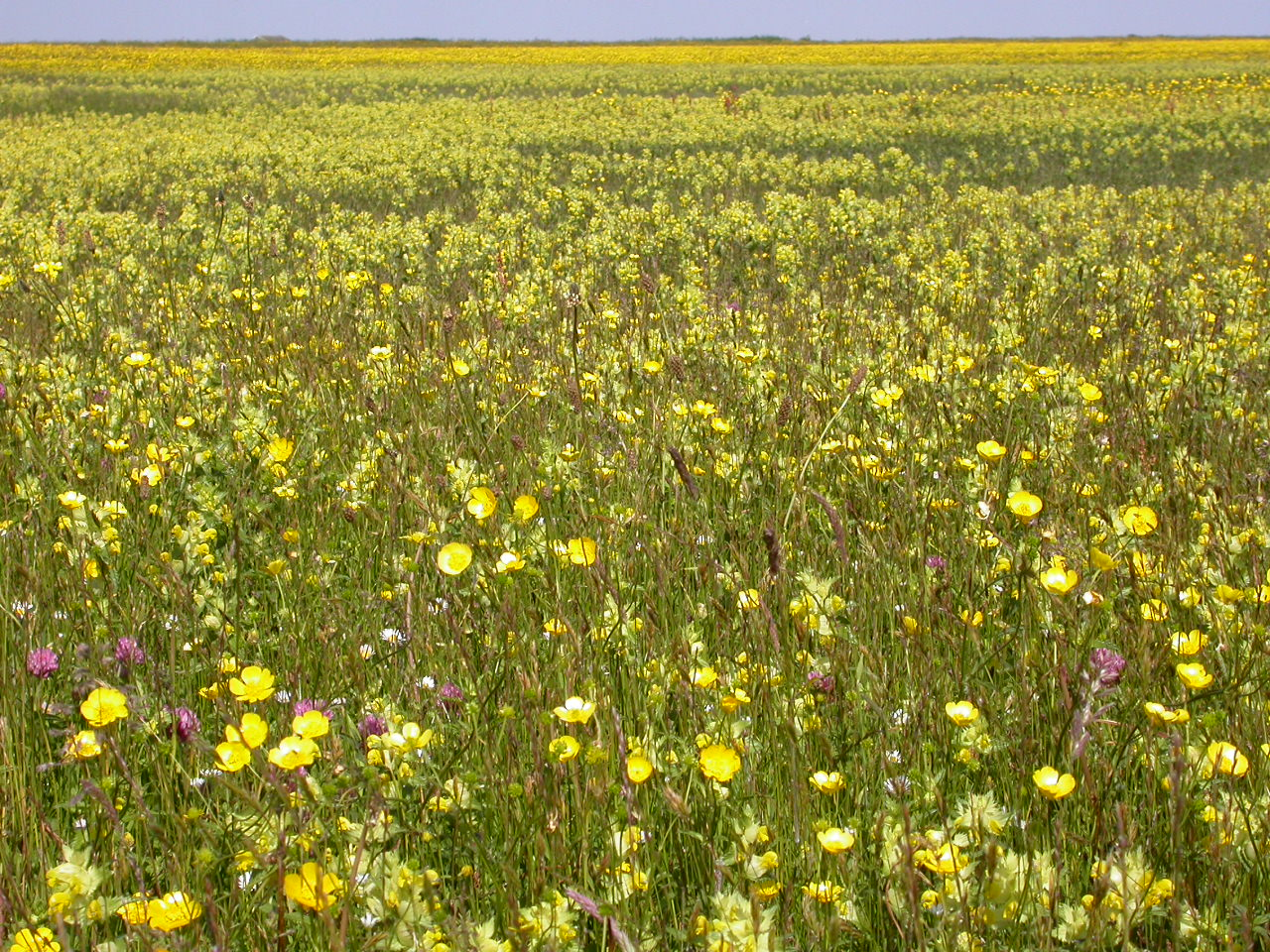 nice meadow habitat for Black-tailed Godwitss